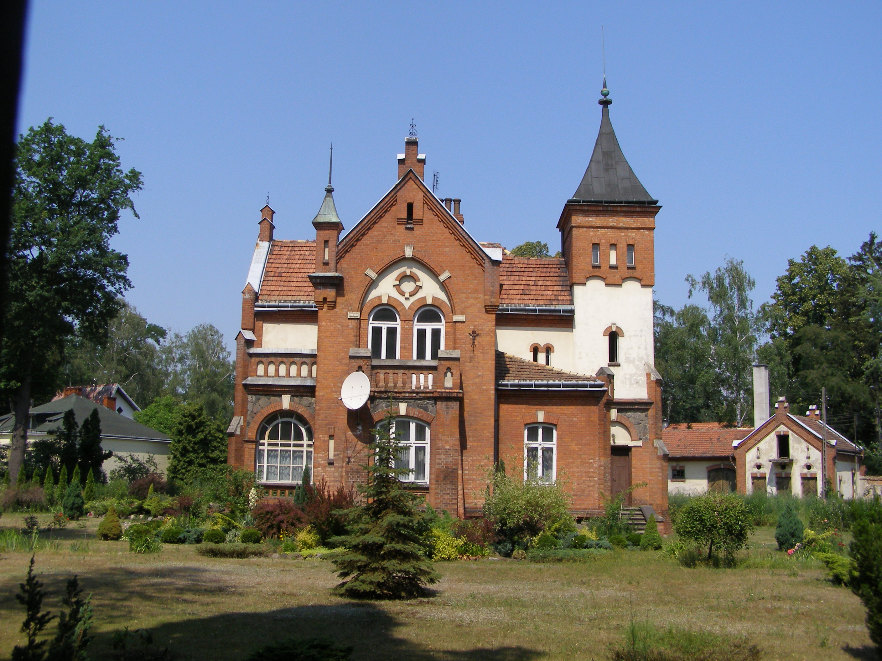 Villa Borówka in Milanówek, Poland (as seen before its restoration)